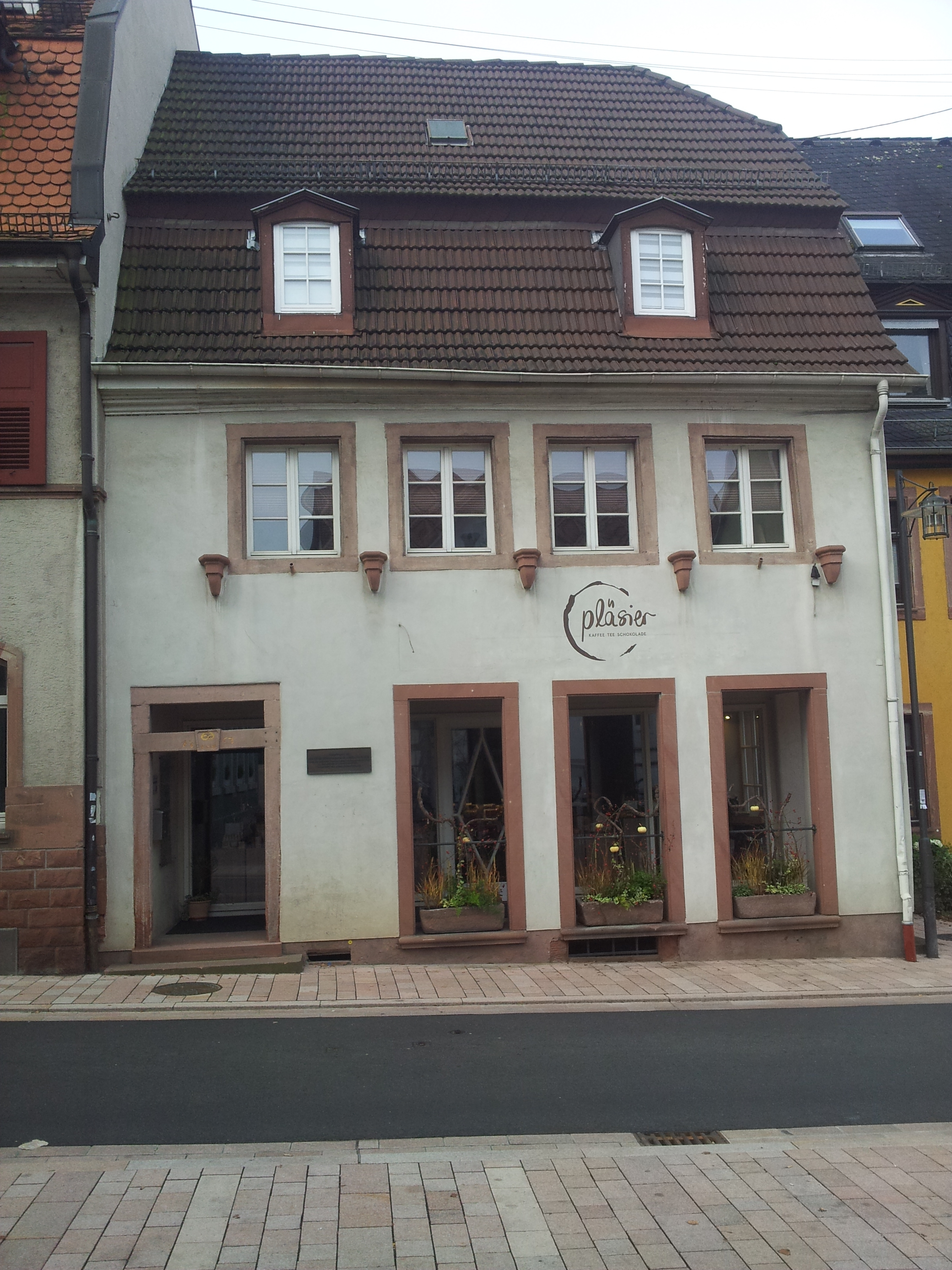 Birthplace of Peter Schnellbach in Neckargemuend